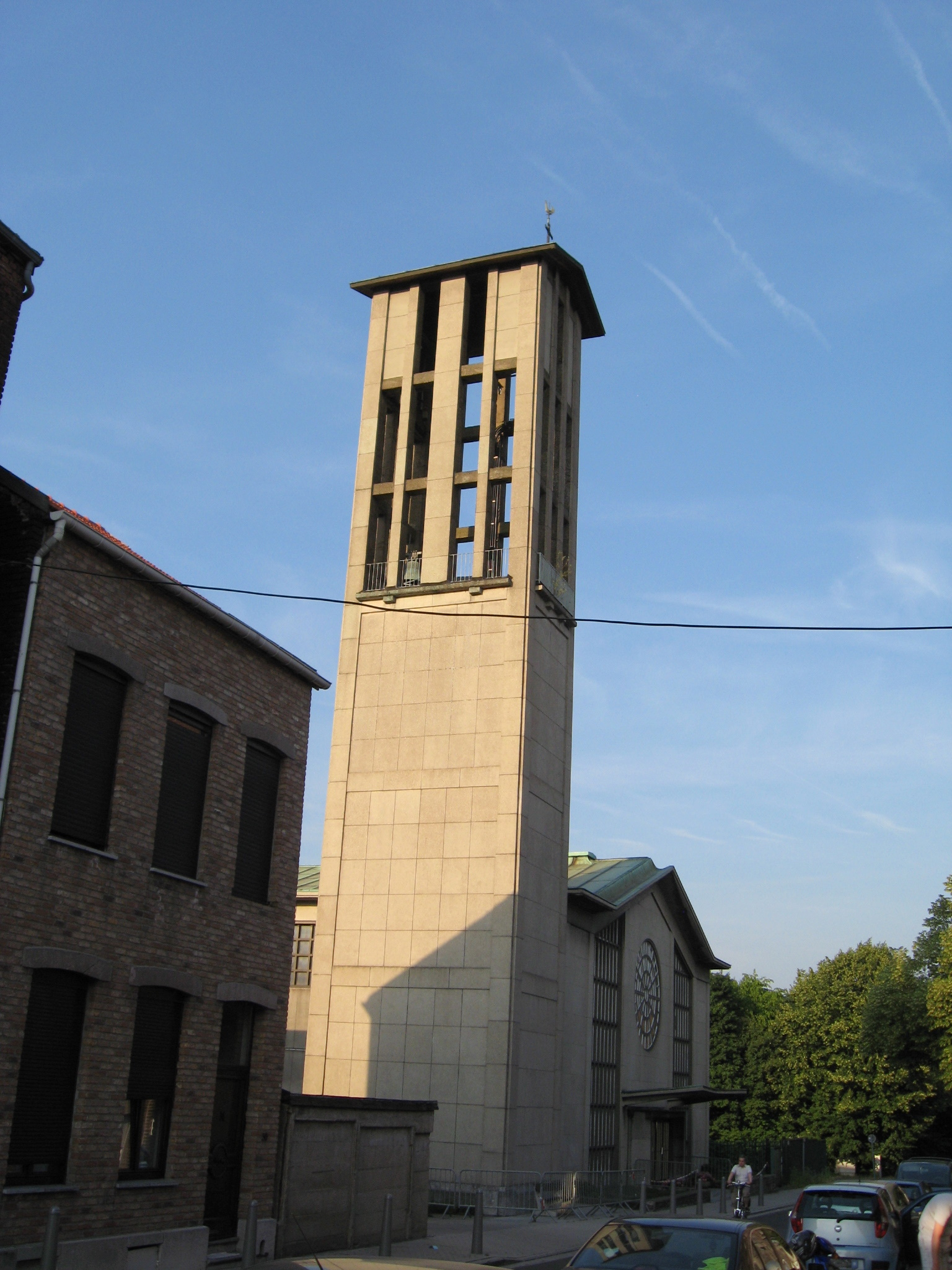 Church of Saint Hubert in Burenville, Liège, Belgium